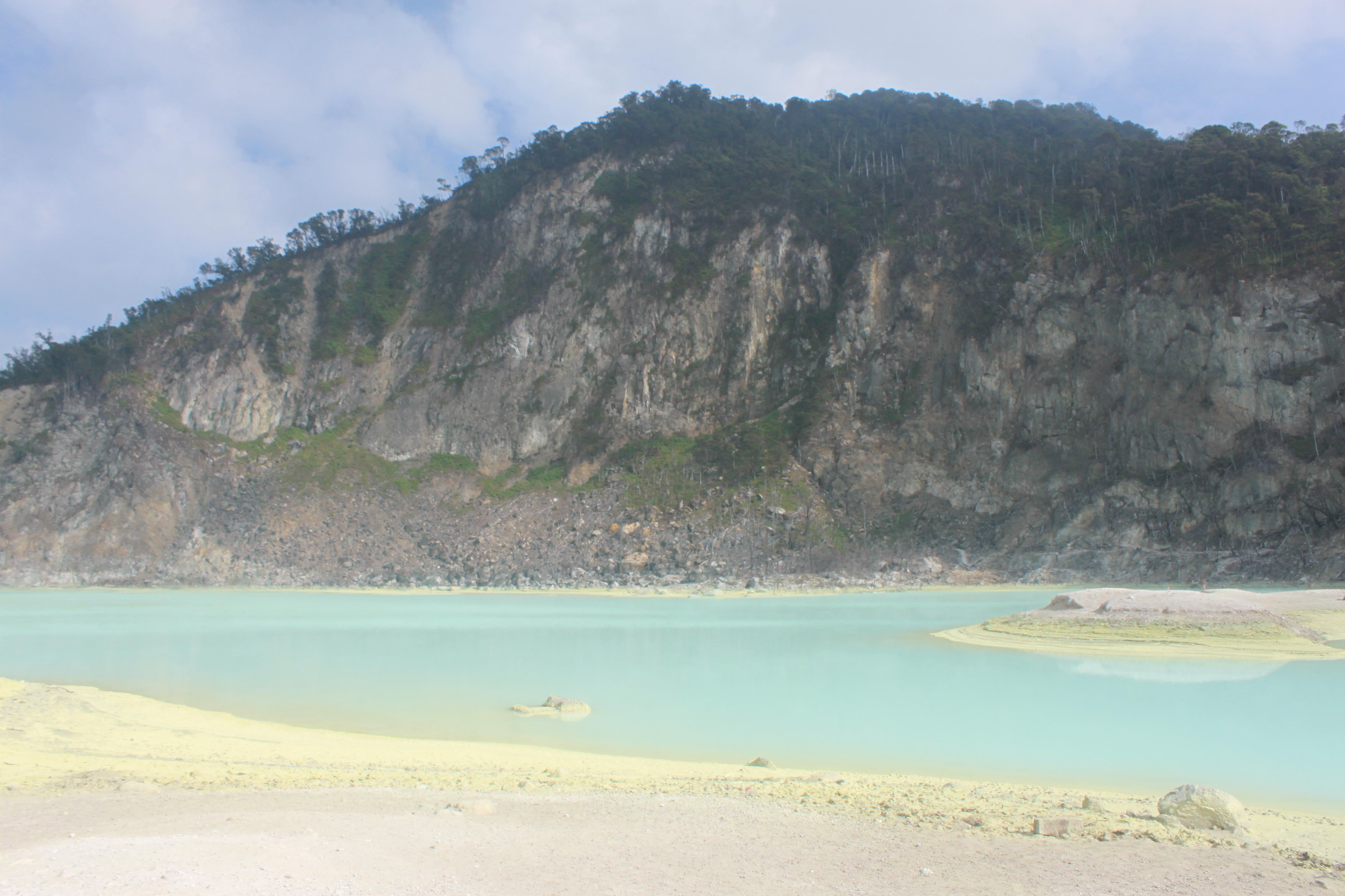 View of Kawah Putih in Bandung, West Java, Indonesia.